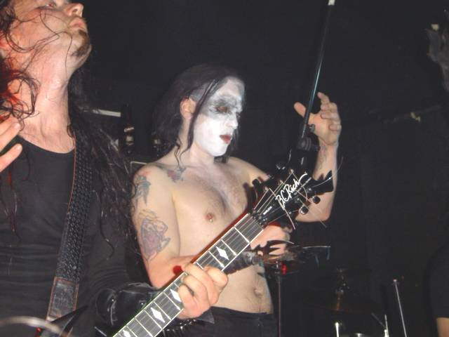 Blasphemer (left) and Maniac (right) of Norwegian black metal band Mayhem